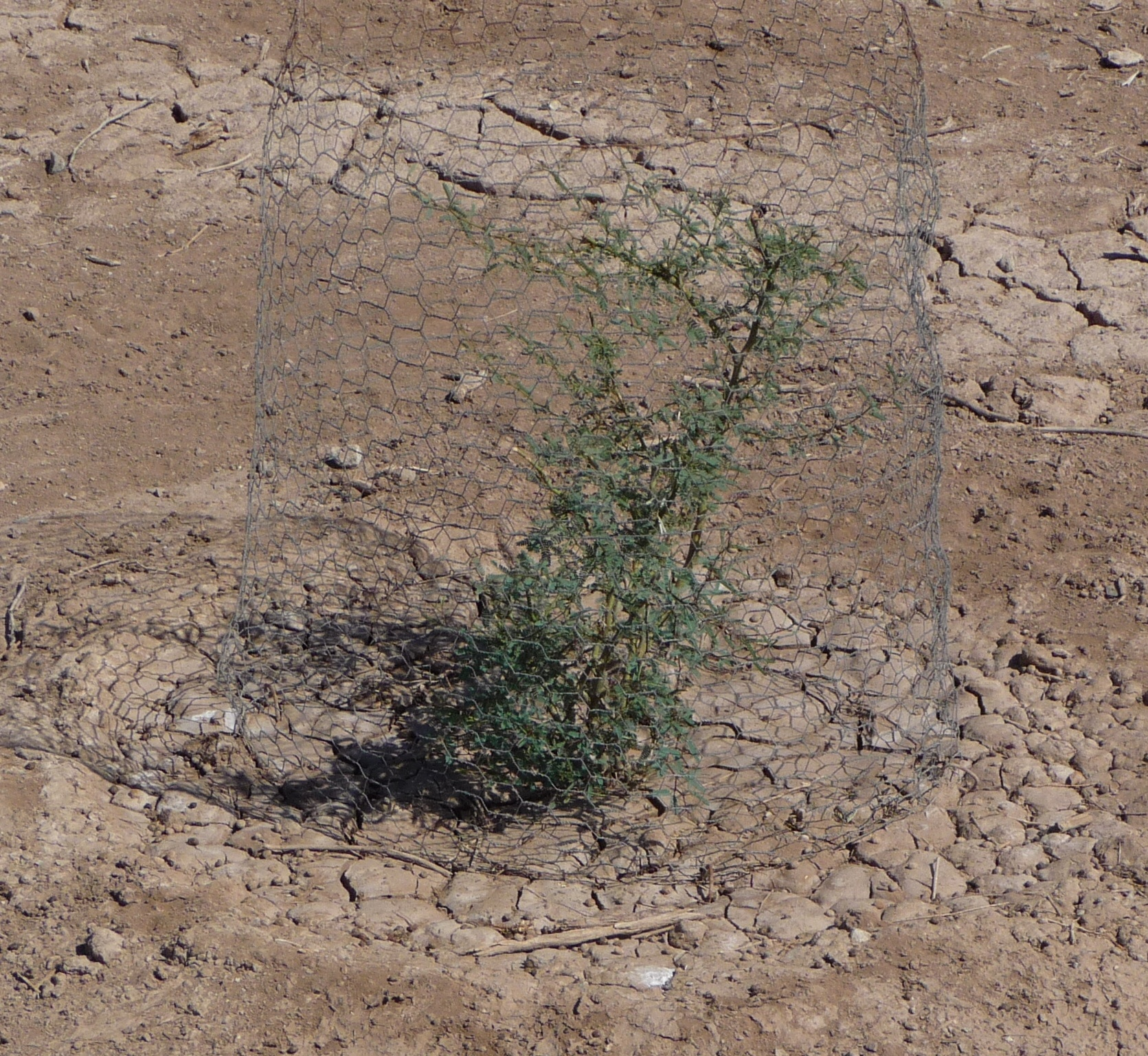 Salton Sea - protected planting